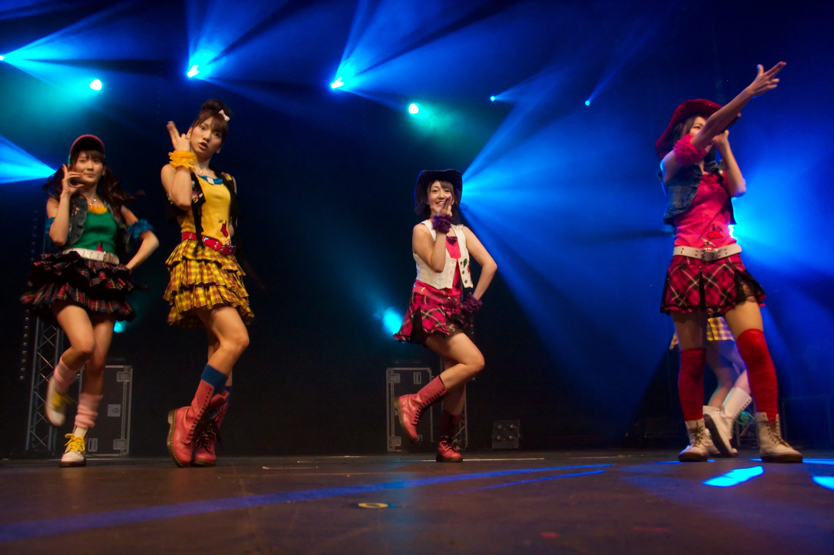 AKB48 live at Japan Expo 2009 (Paris, France).